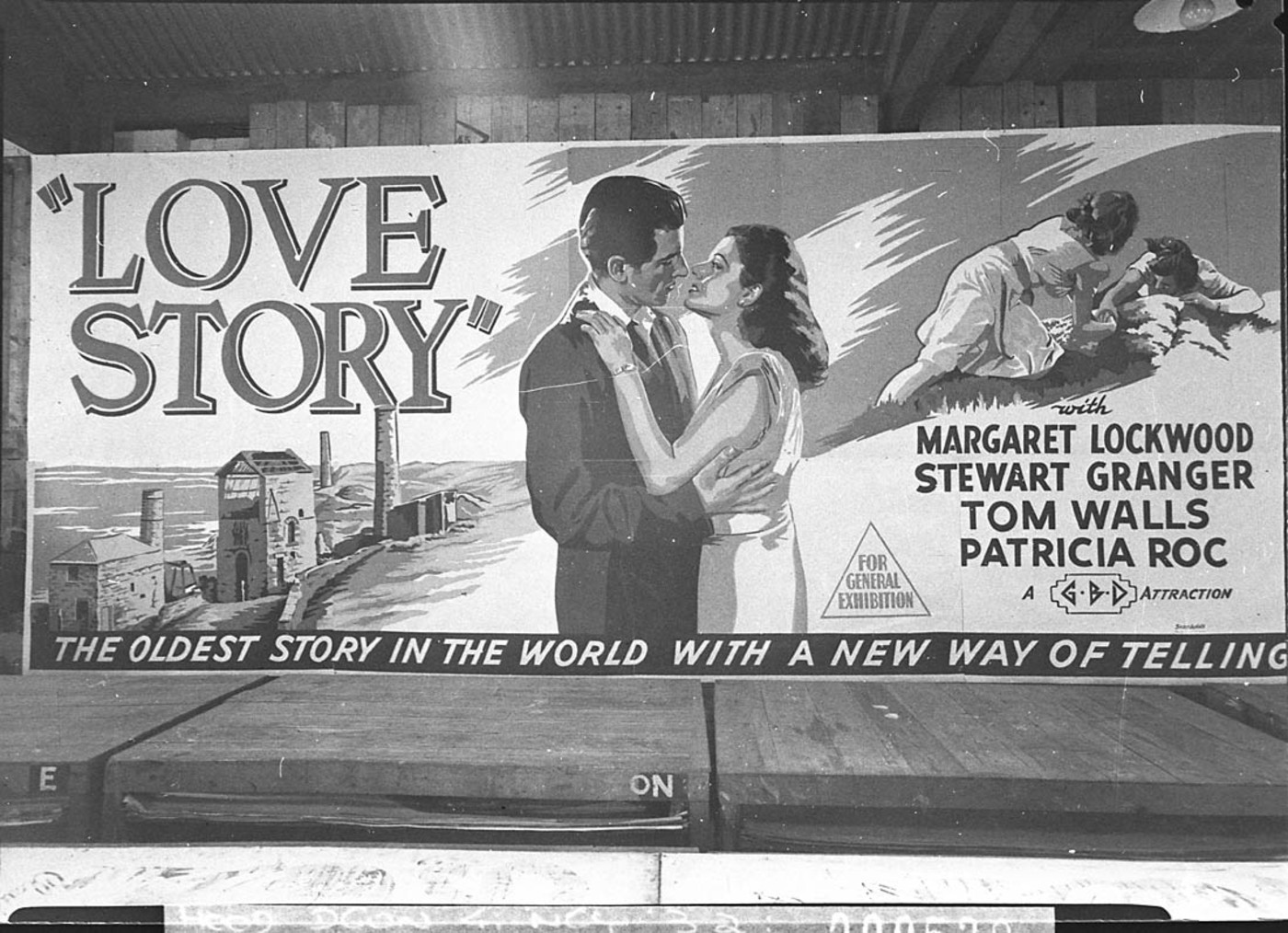 "Love Story" (Snap Adds 24-sheeter film poster)